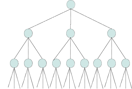 Kolmogorov probability similar to universal probability - step 0.